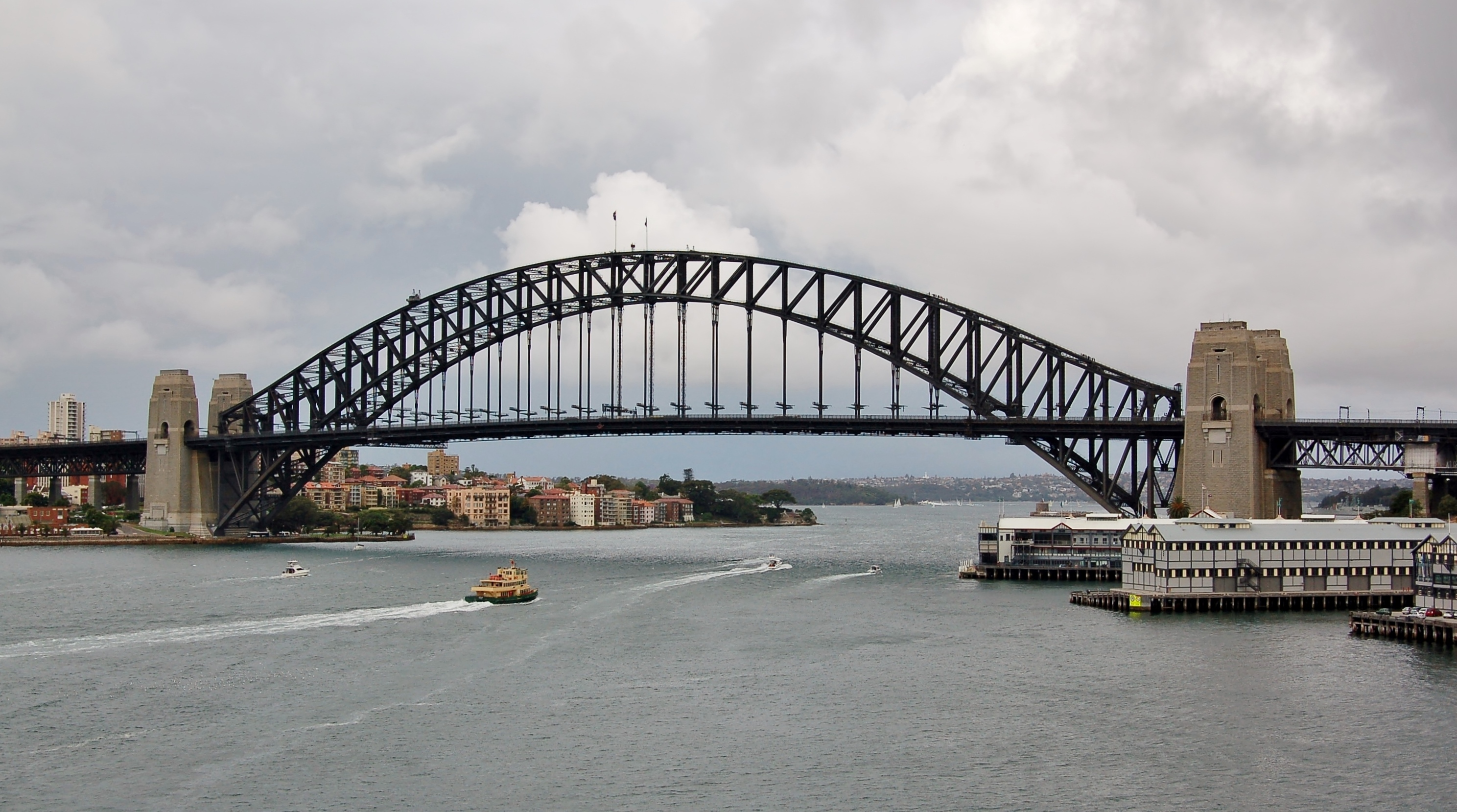 View of the Sydney Harbour Bridge, taken from a departing P&O Australia cruise ship, Pacific Sun.